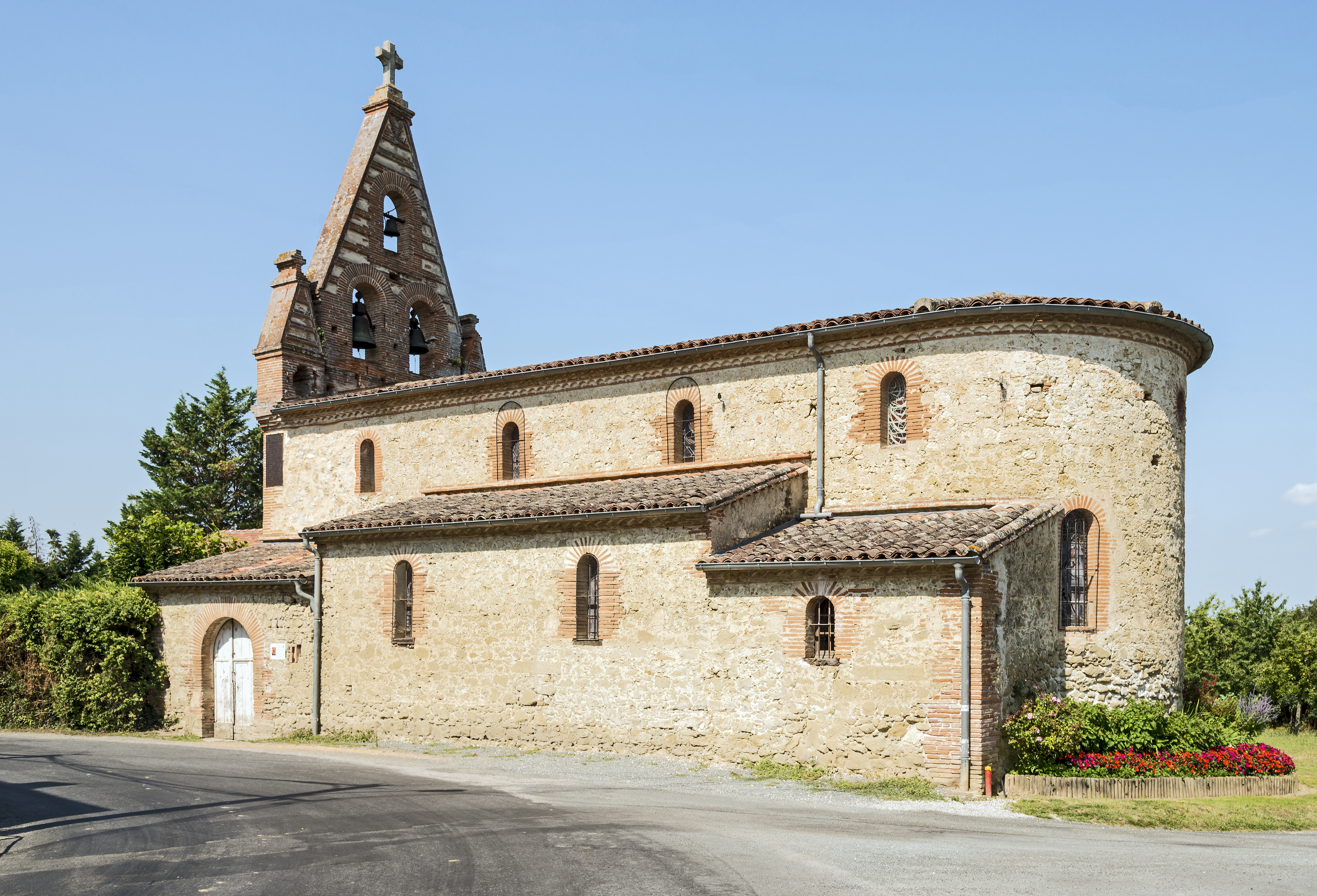 Teulat, Tarn, France - Chapel St. Martin, East exposure.